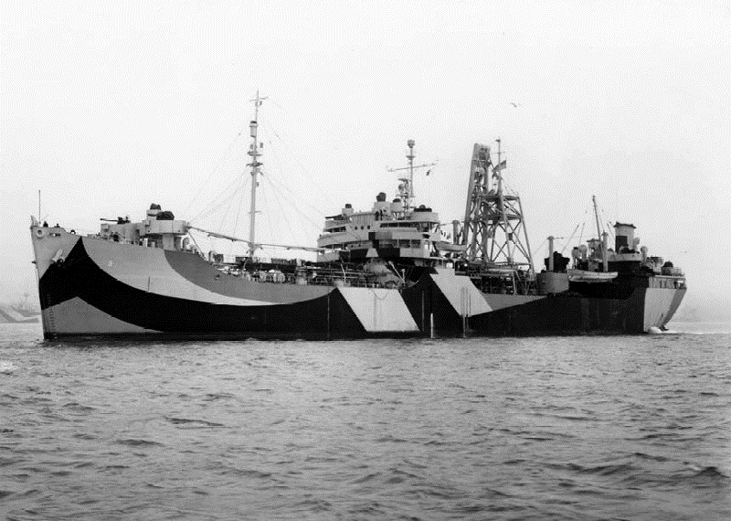 USS Pasig (AW-3) underway near Mare Island Navy Yard, 7 January 1945, a few weeks after commissioning